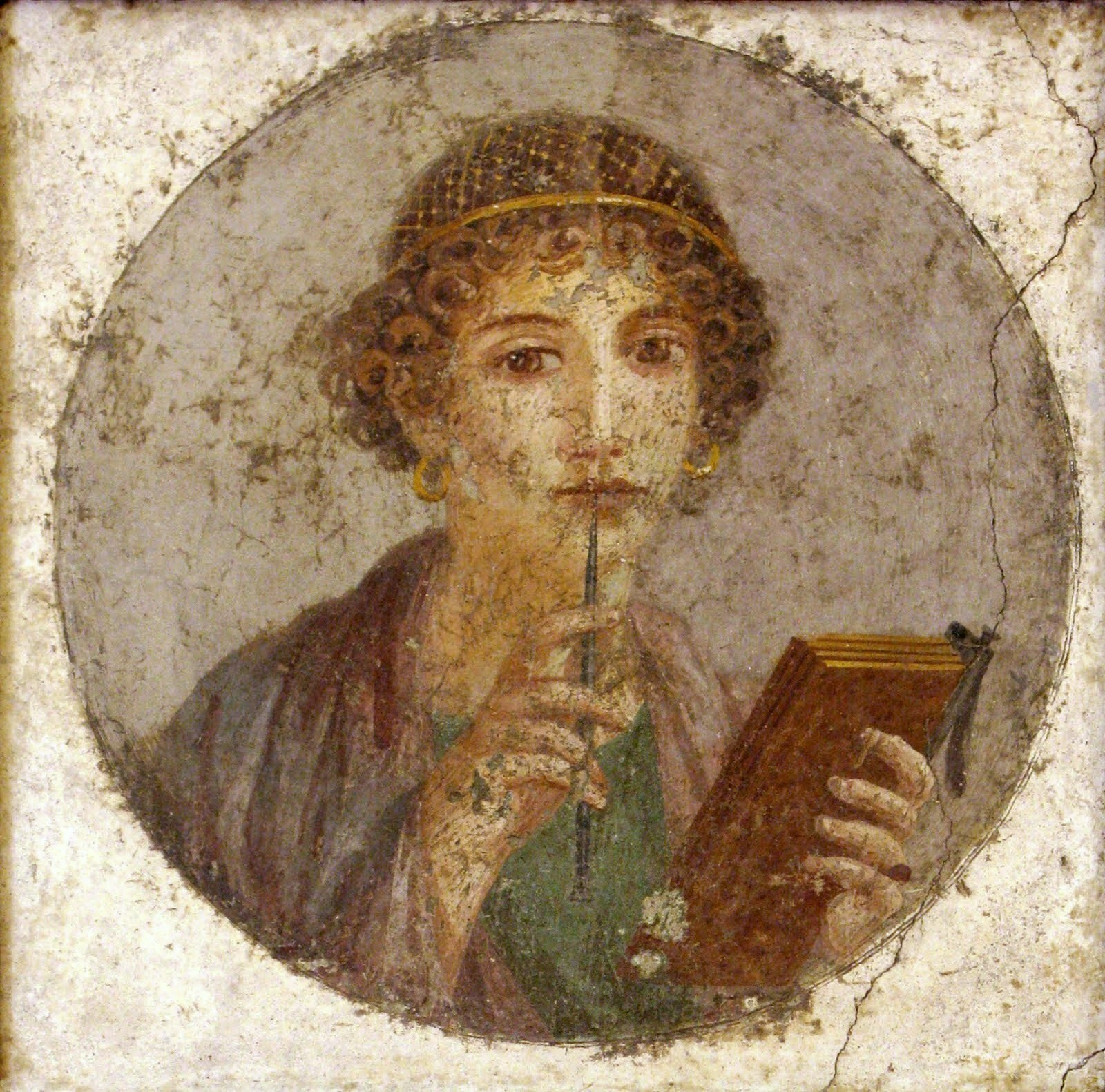 Tondo of Woman with wax tablets and stylus (so-called "Sappho"), National Archaeological Museum of Naples (inventory no. 9084). Roman fresco of about 50, from Pompeii (VI, Insula Occidentalis) - Discovered in 1760, is one of the most famous and beloved paintings, commonly called Sappho. Actually portrays a high-society Pompeian girl, richly dressed with gold-threaded hair and large gold earrings, bringing the stylus to the mouth and holding the wax tablets, notoriously accounting documents which therefore have nothing to do with poetry and even less with the famous Greek writer.